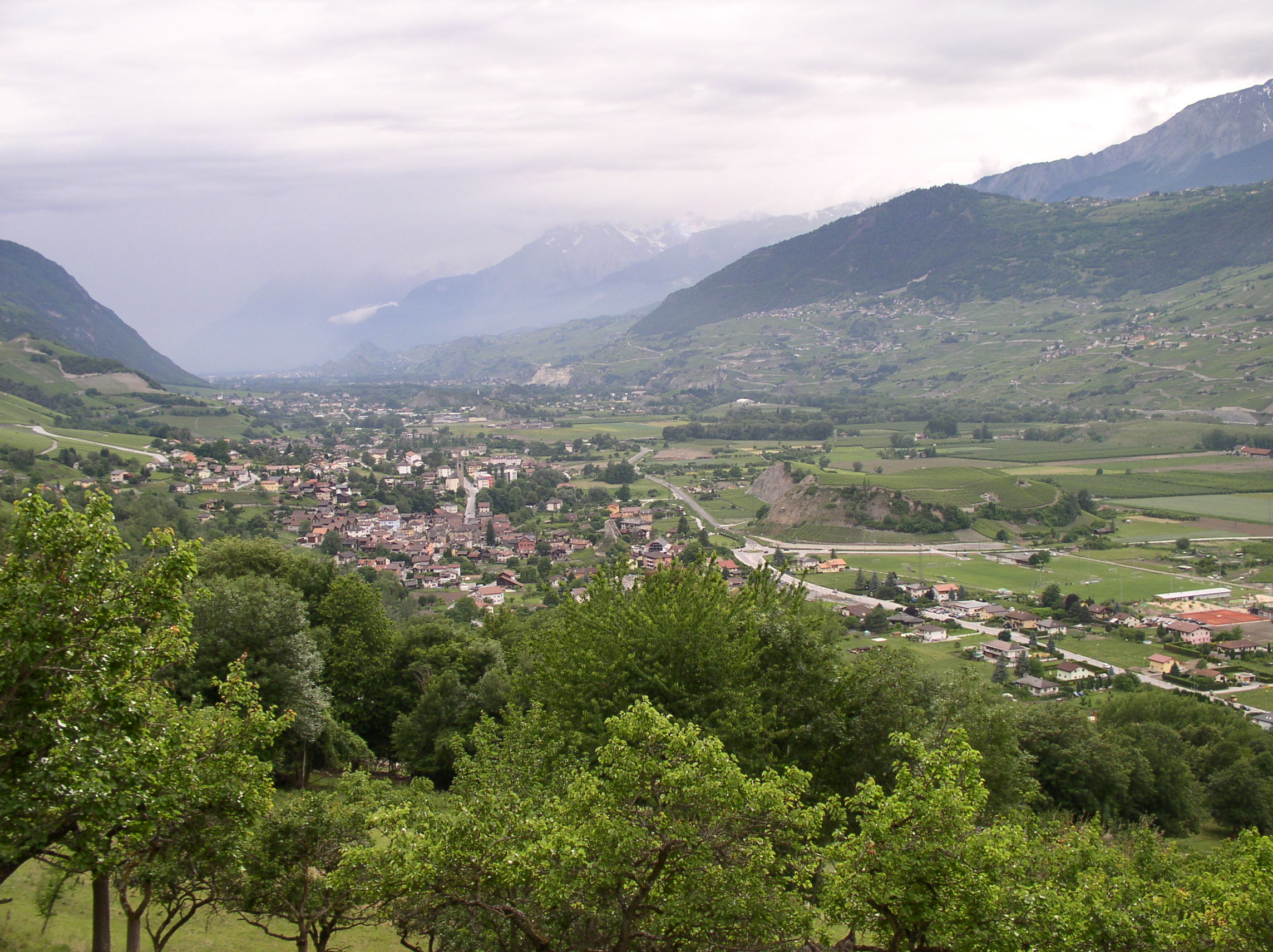 Village of Chalais, Valais, Switzerland